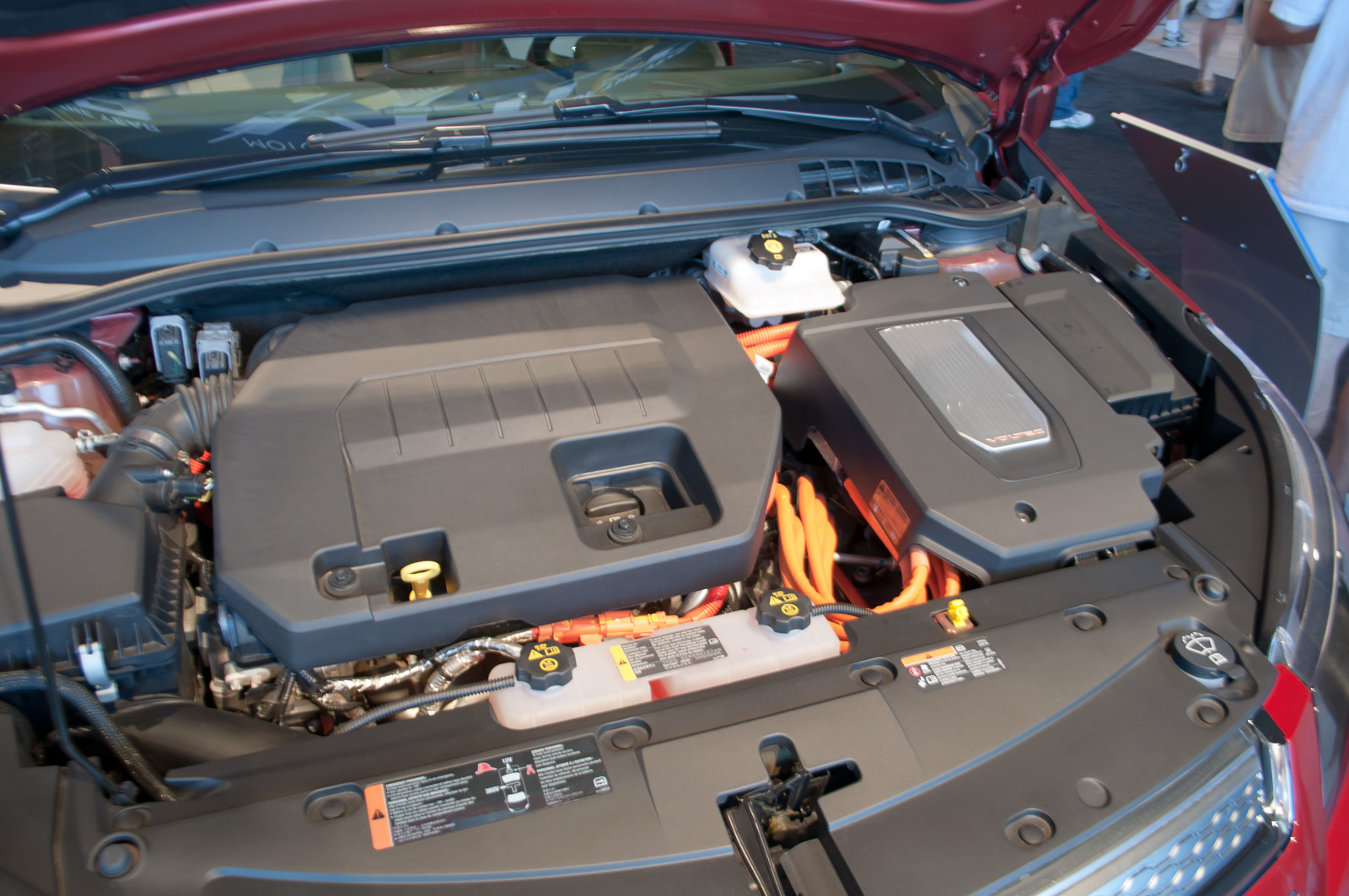 The engine compartment of the Chevrolet Volt plug-in hybrid. While previous gasoline-electric hybrid vehicles were primarily powered by the gasoline engine, with the electric motor used for regenerative braking and engine assist, the Volt goes a step further, uses the electric motor as the primary means of propulsion, and uses gasoline power primarily to recharge the battery (although it can assist the electric motor as well). That way, it overcomes a key limit of pure electric cars - range. If charged at home and used primarily for short to medium commutes, it may not be necessary to refuel a Volt at all. This car was seen at General Motors' new car showcase at Barrett-Jackson Auto Auction, Costa Mesa, California.